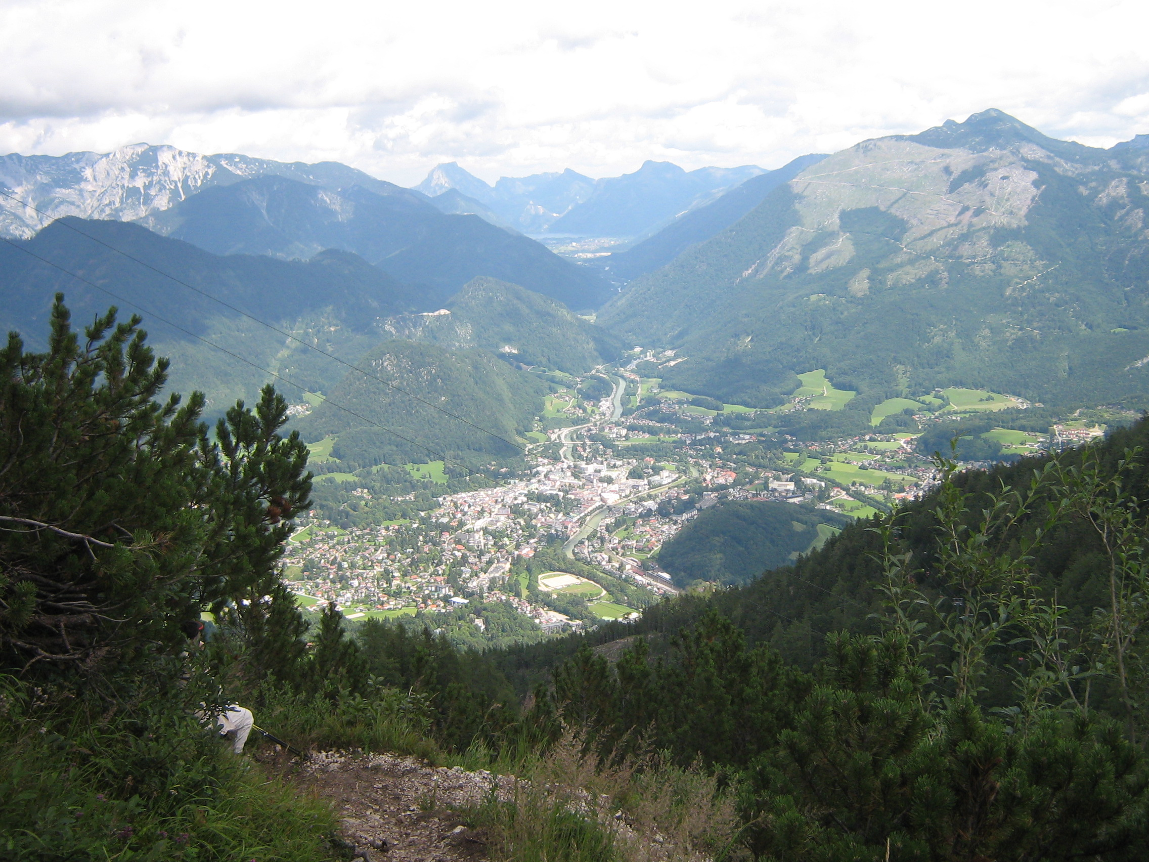 Austria, Bad Ischl, Mountain Katrin